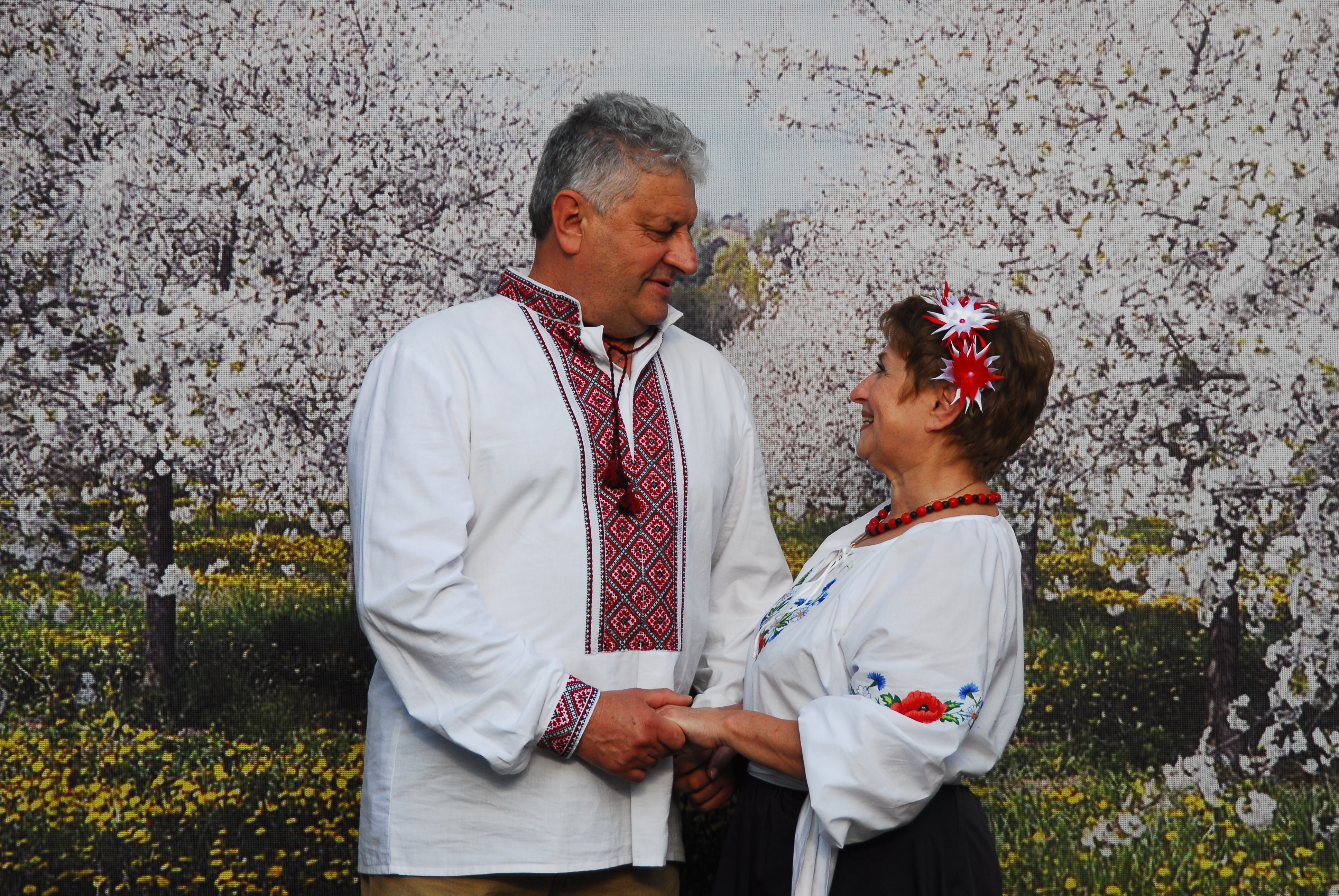 A couple in Melitopol, Ukraine